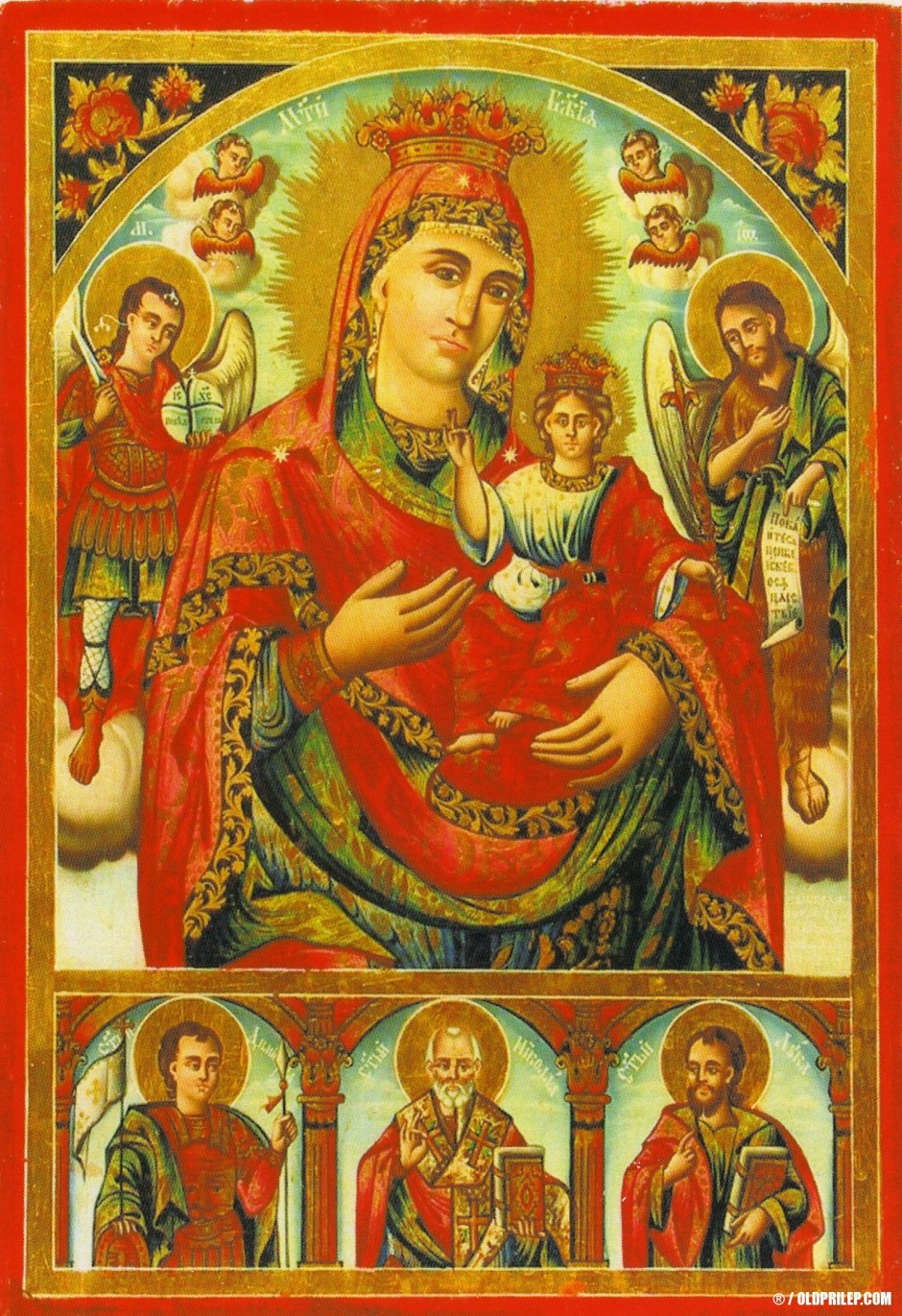 Saint Mary Icon by Ivan Budimov